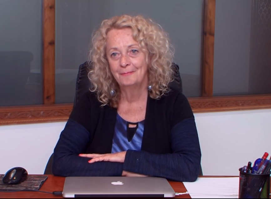 Judith Drotar, director of the American International School Algiers (AISA), in her office.